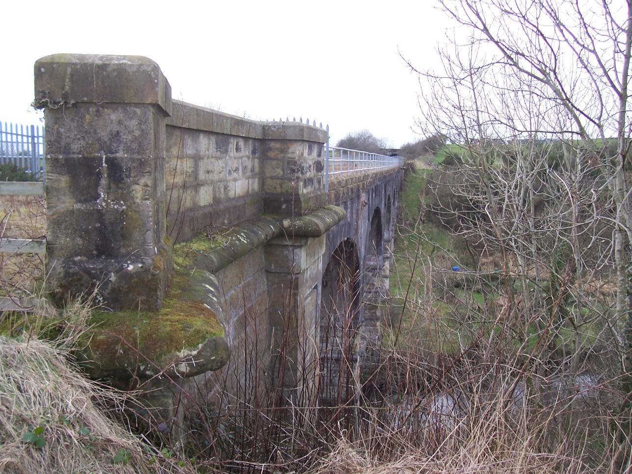 A north-west facing view of a viaduct over the Lugton Water in North Ayrshire, Scotland in February 2007, which once carried trains between Dalry and Crosshouse as part of the Glasgow, Paisley, Kilmarnock and Ayr Railway. The viaduct is fenced off, preventing public access.